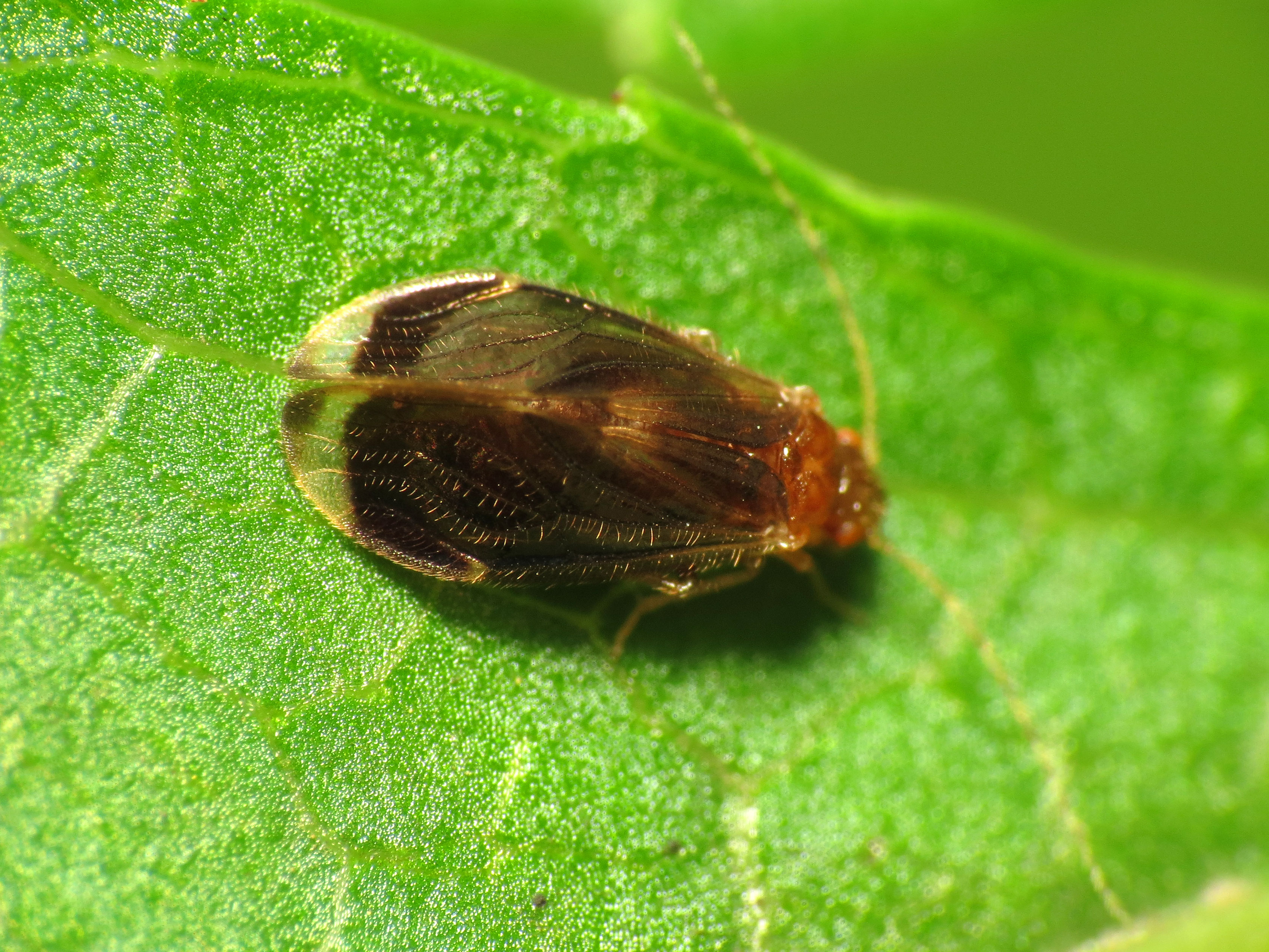 Polypsocus corruptus female. Rock Creek Park, Washington, DC, USA.